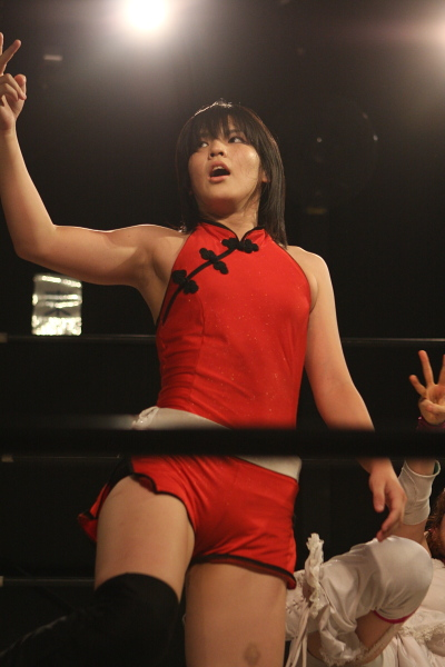 Hikaru Shida